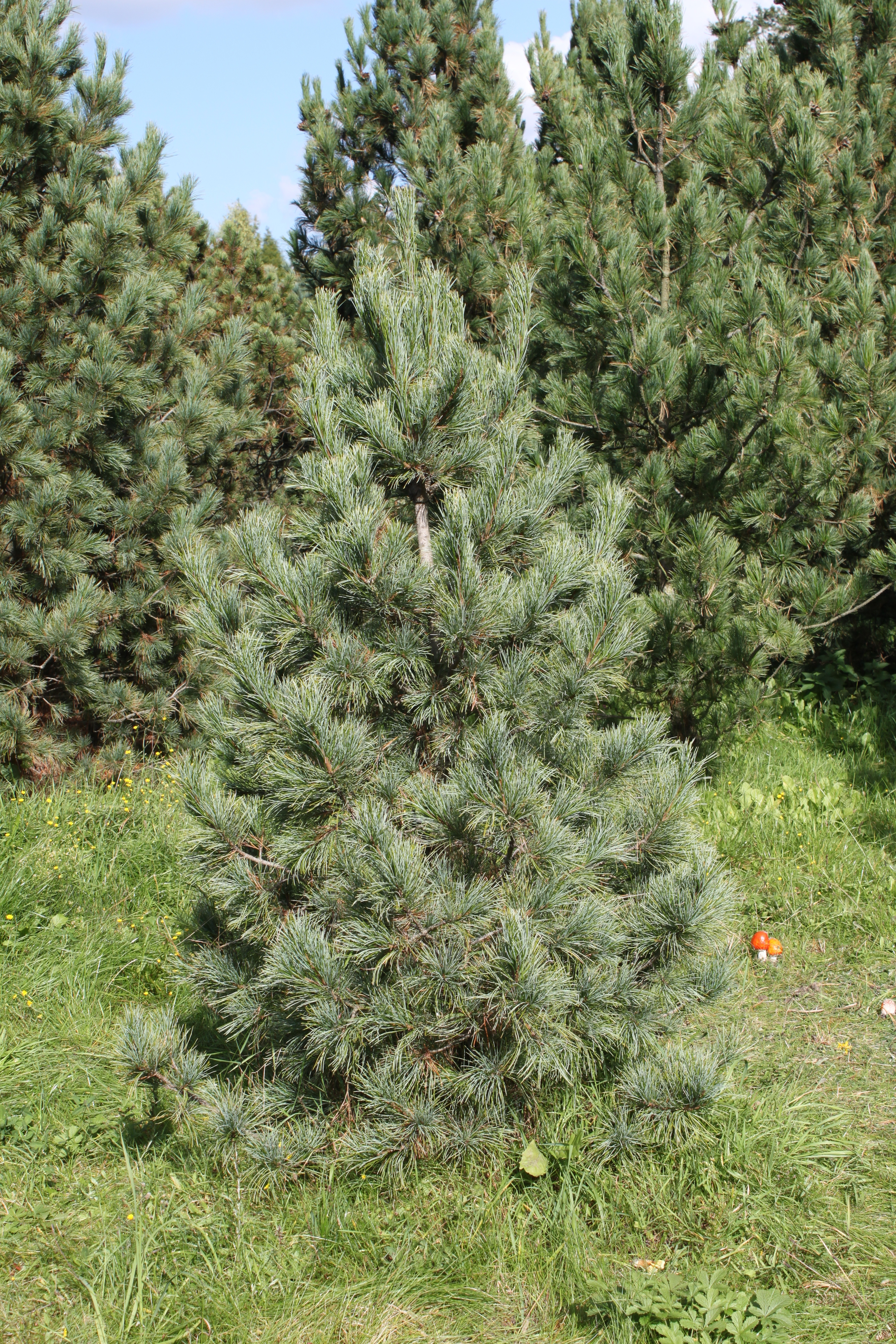 Siberian Pine (Pinus sibirica) in PAN Botanical Garden in Warsaw, Poland